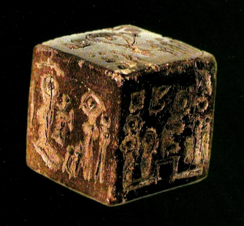 BONE BRICK WITH THE GOSPEL SUBJECTS. Late 15th c. Minsk